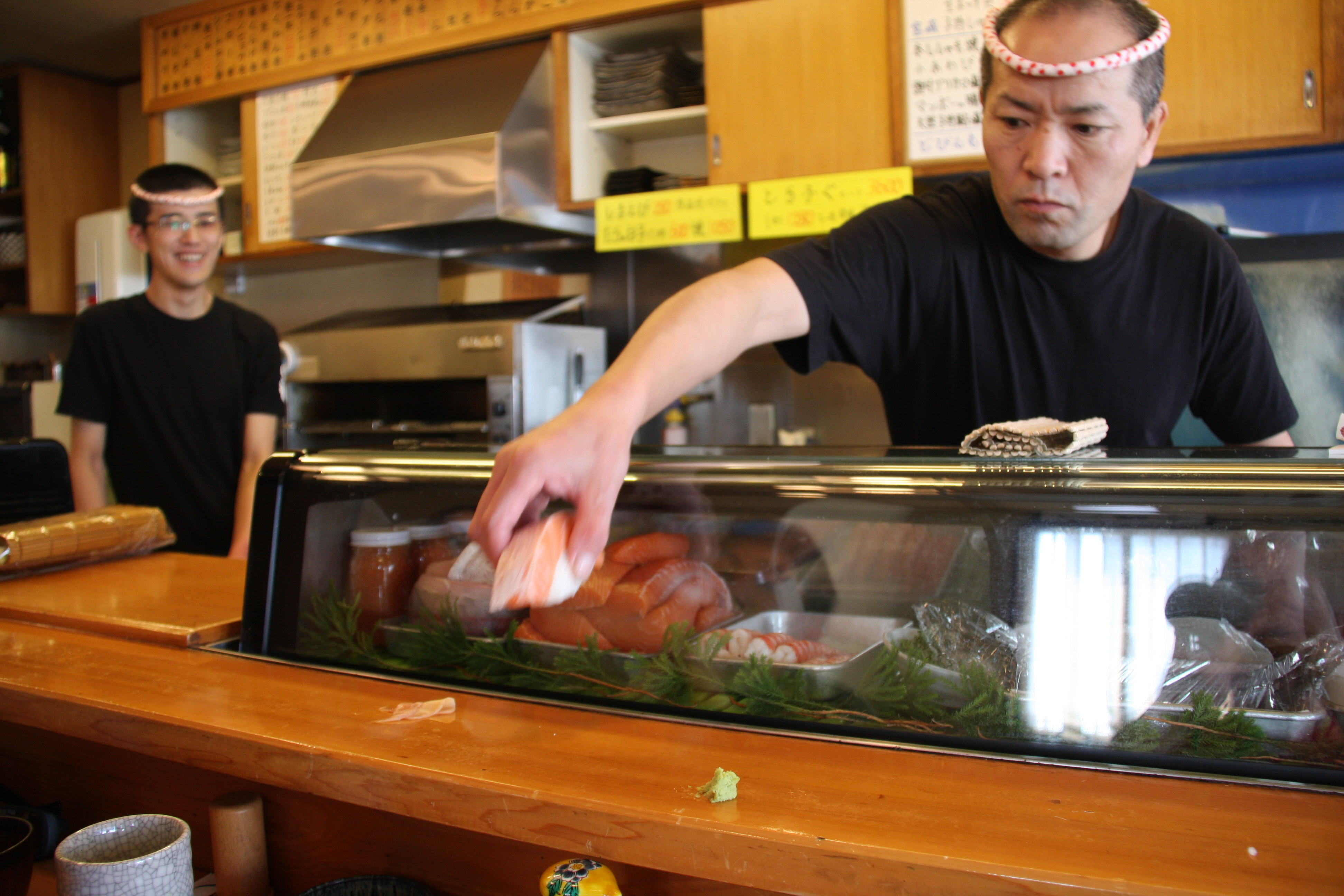 Just look... LOOK... at the size of that thing. At Sennari, our favourite place for sushi in Gifu, and Japan really. The place is known for their overly large portions, and though it's not super-trendy and expensive, don't expect it to be the cheapest place in the world.